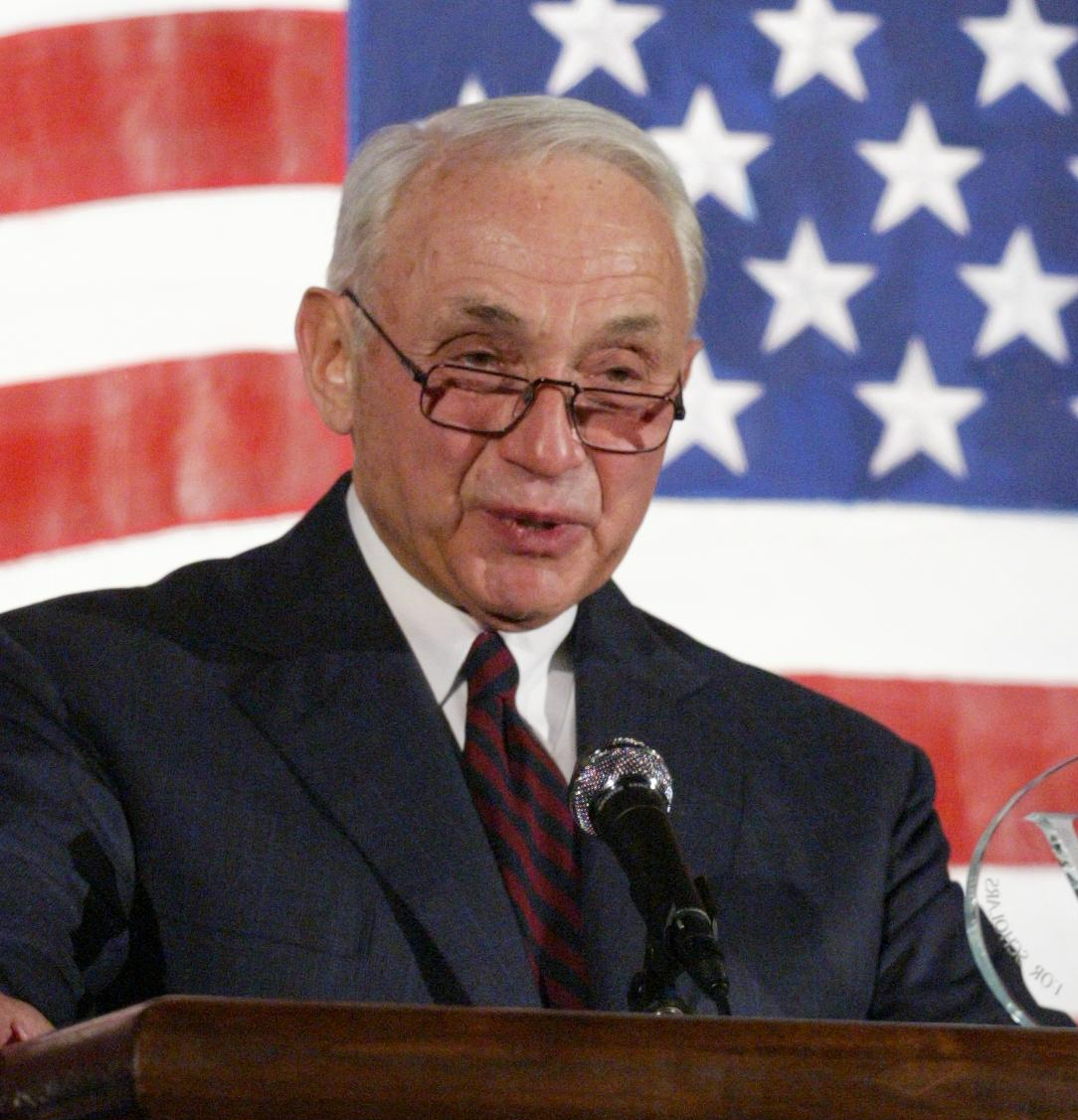 Leslie Wexner speaking Woodrow Wilson Award ceremony